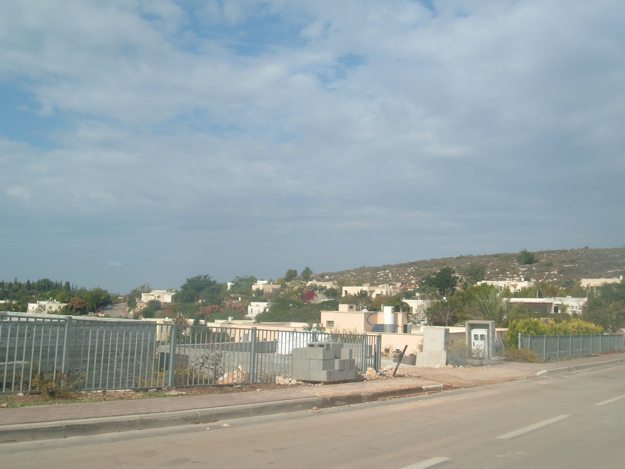 mizpe aviv מצפה אביב